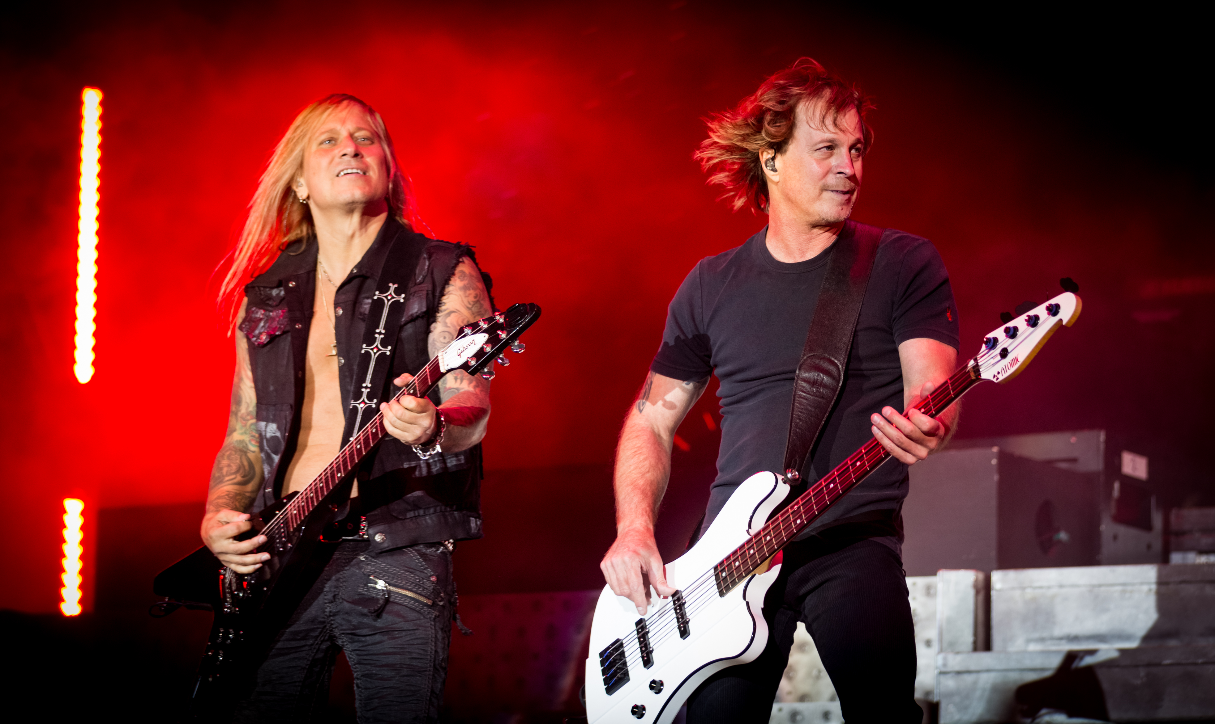 Savatage - Wacken Open Air 2015